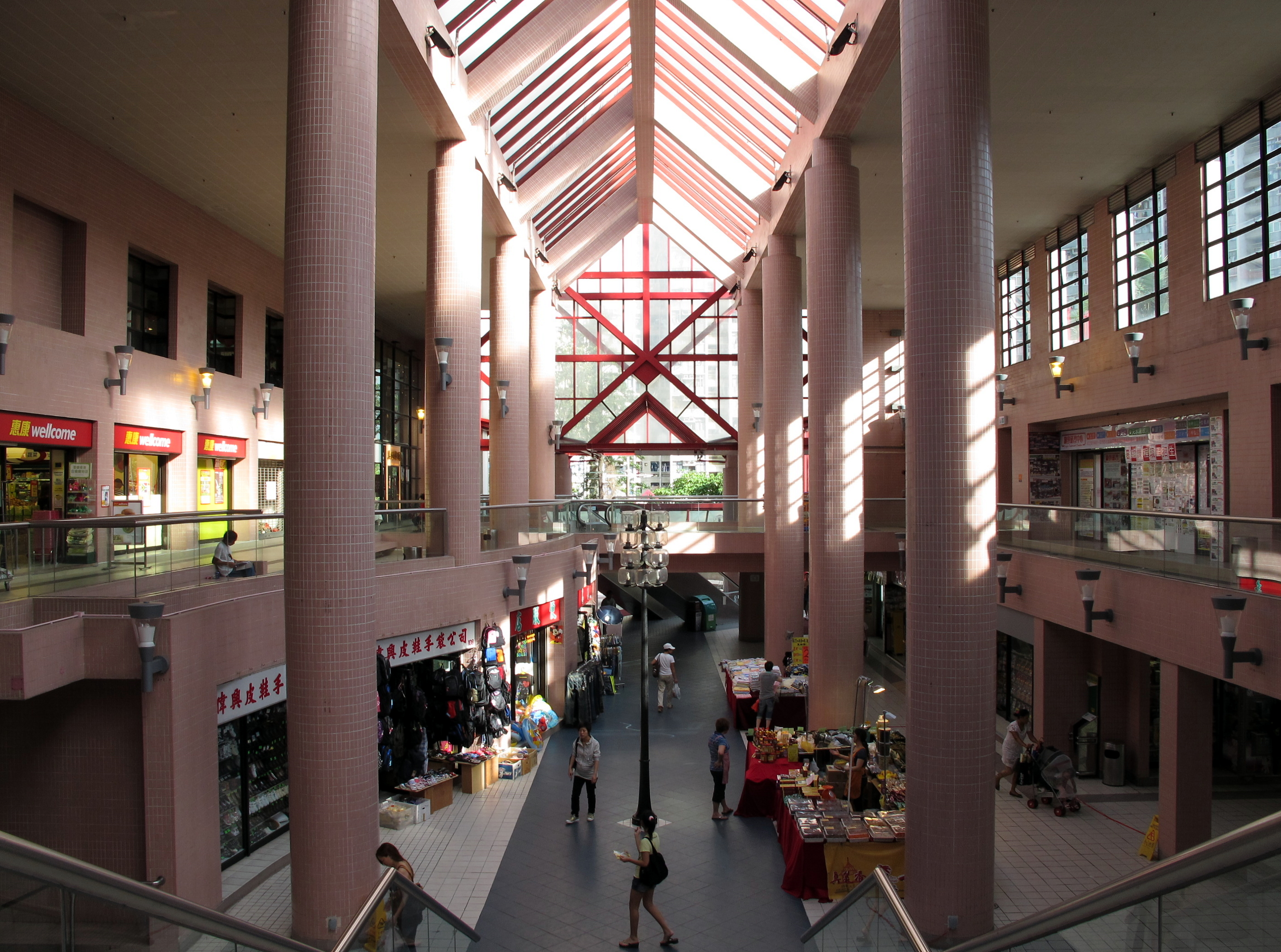 Kin Sang Shopping Centre Interior 建生商場